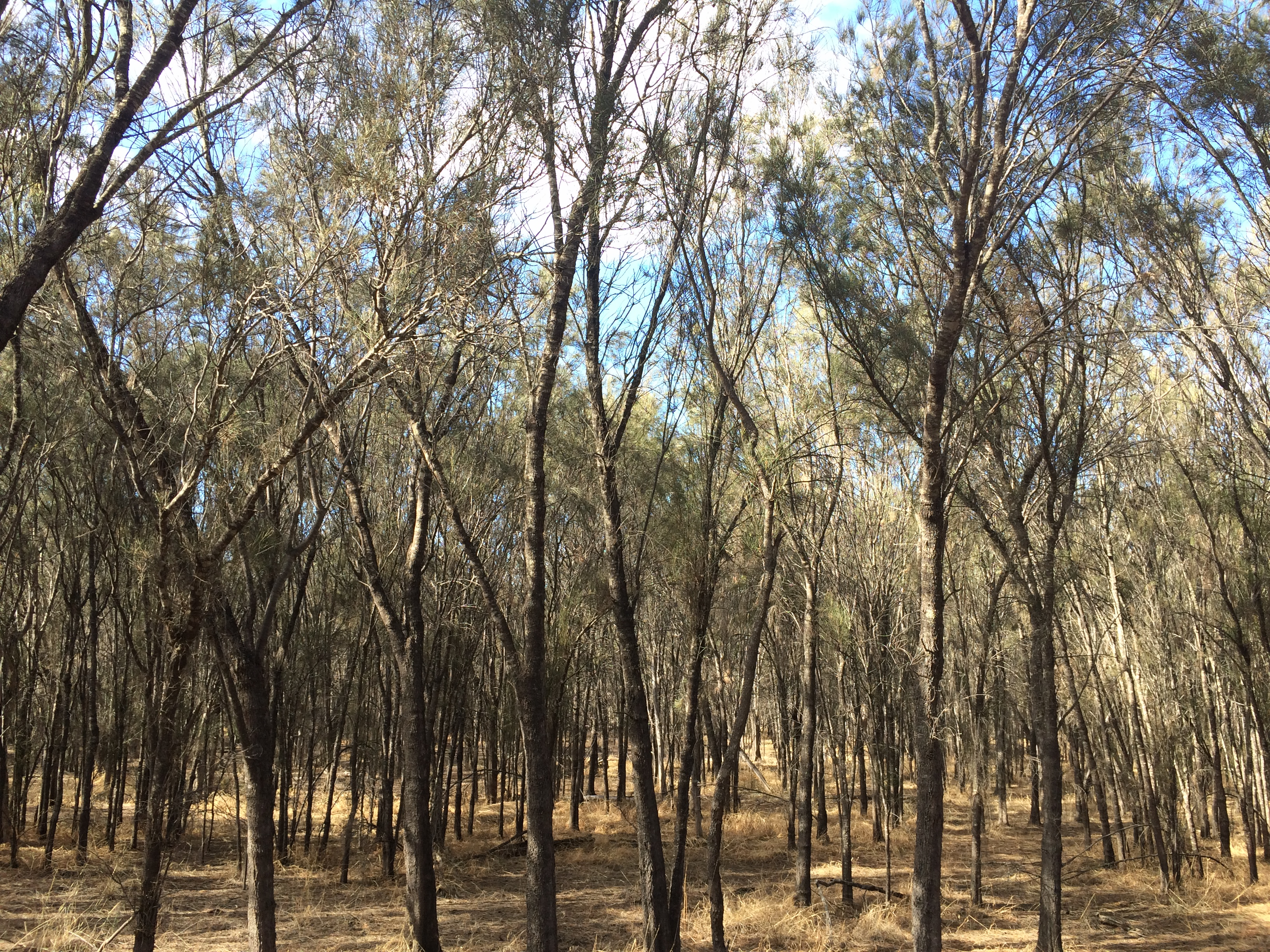 Allocasuarina huegeliana woodland near Wagin